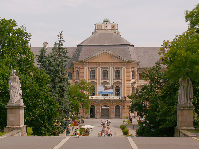 The main facade of the Lyceum (Eger, Hungary)